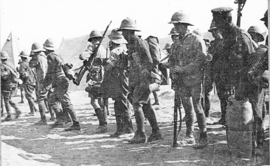 Photo of demoblising troops Kantara 1918.